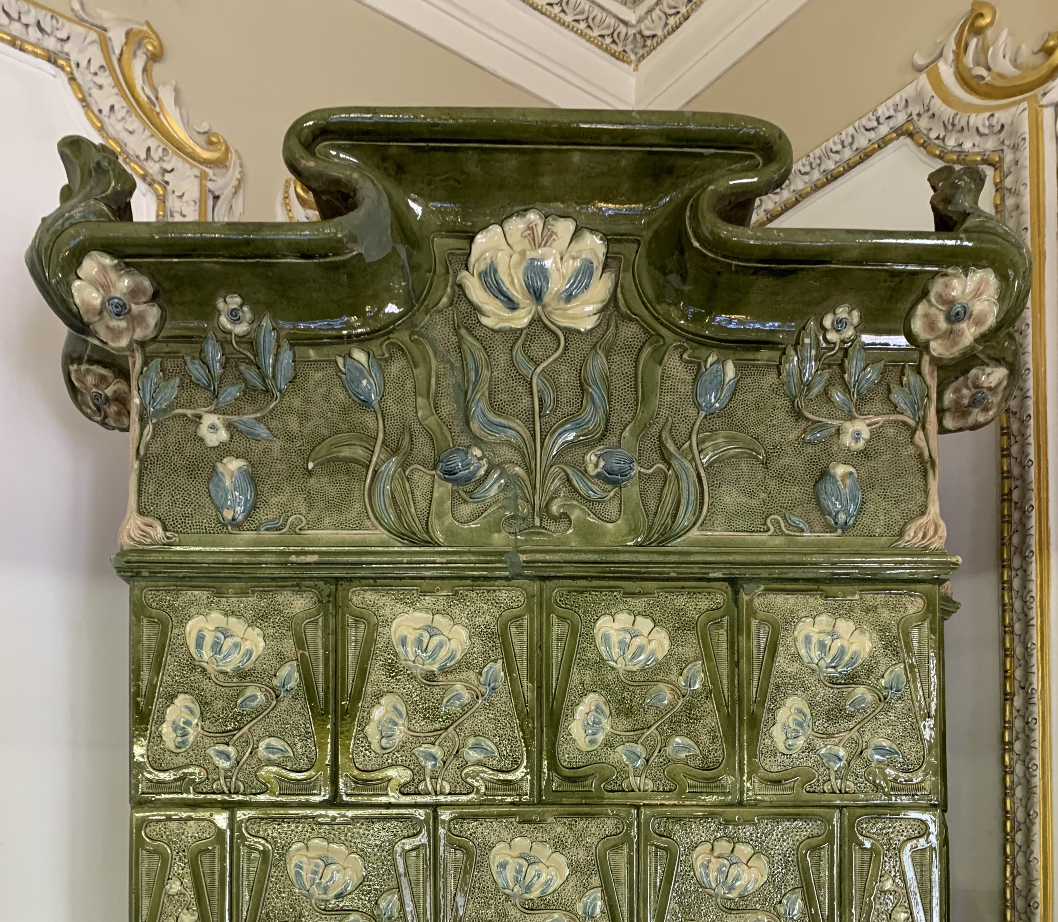 Detail of A Stove from the George Severeanu Museum (Bucharest, Romania)